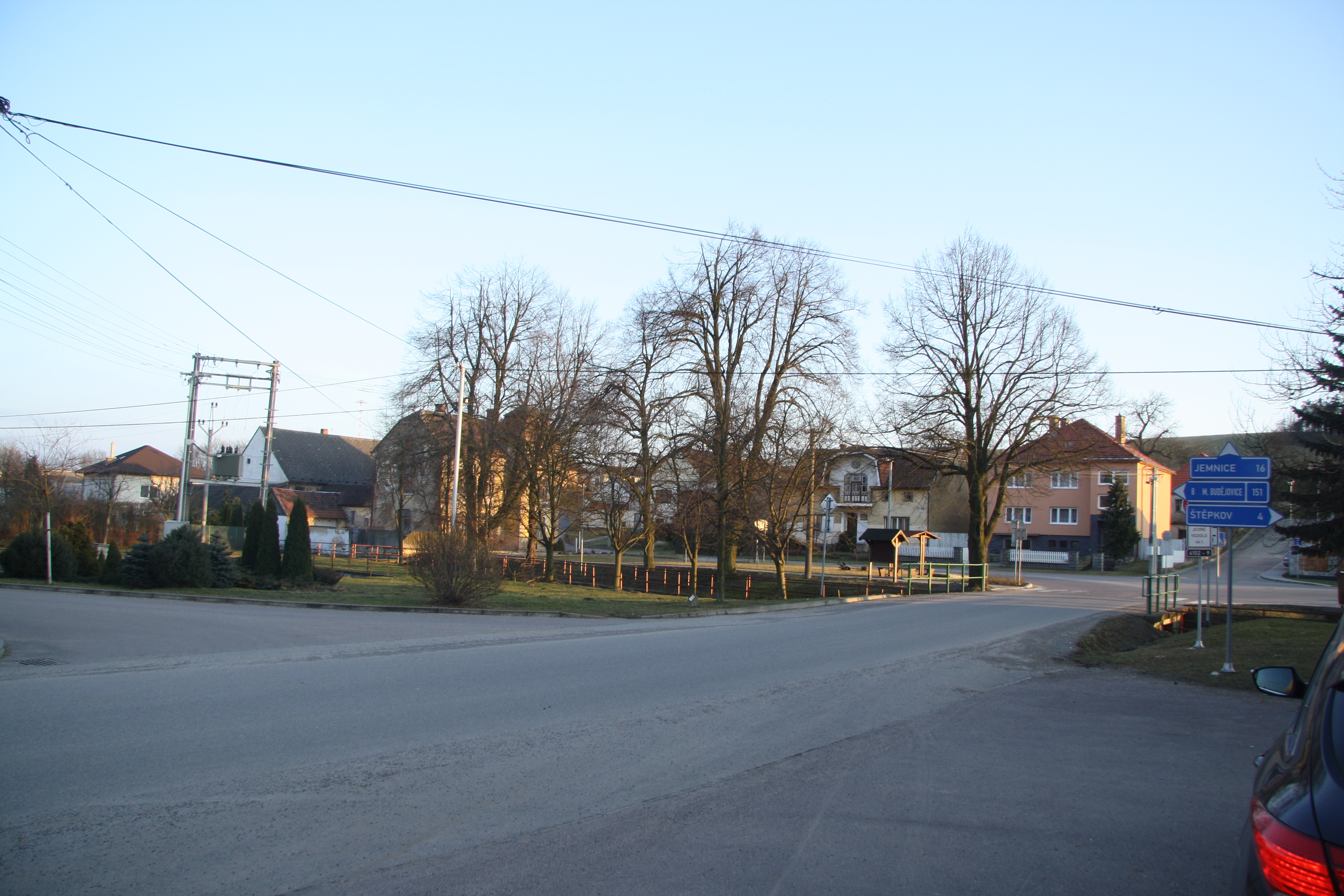 Center of Domamil, Třebíč District.